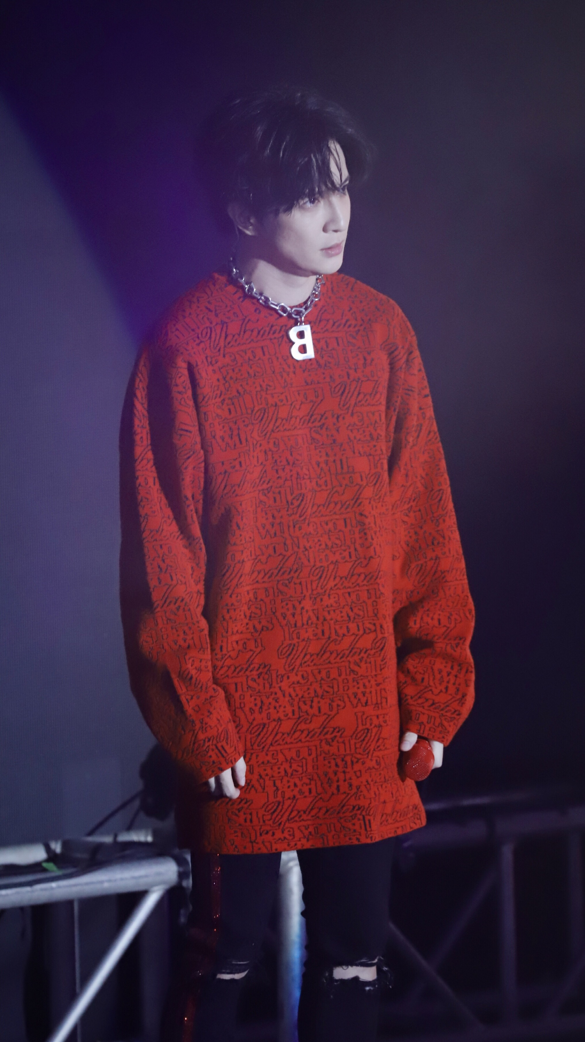 Joker Xue Zhiqian